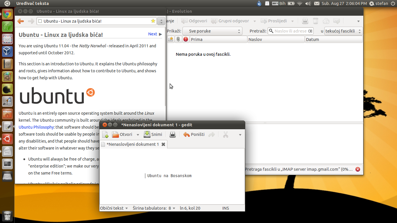 Ubuntu in Bosnian